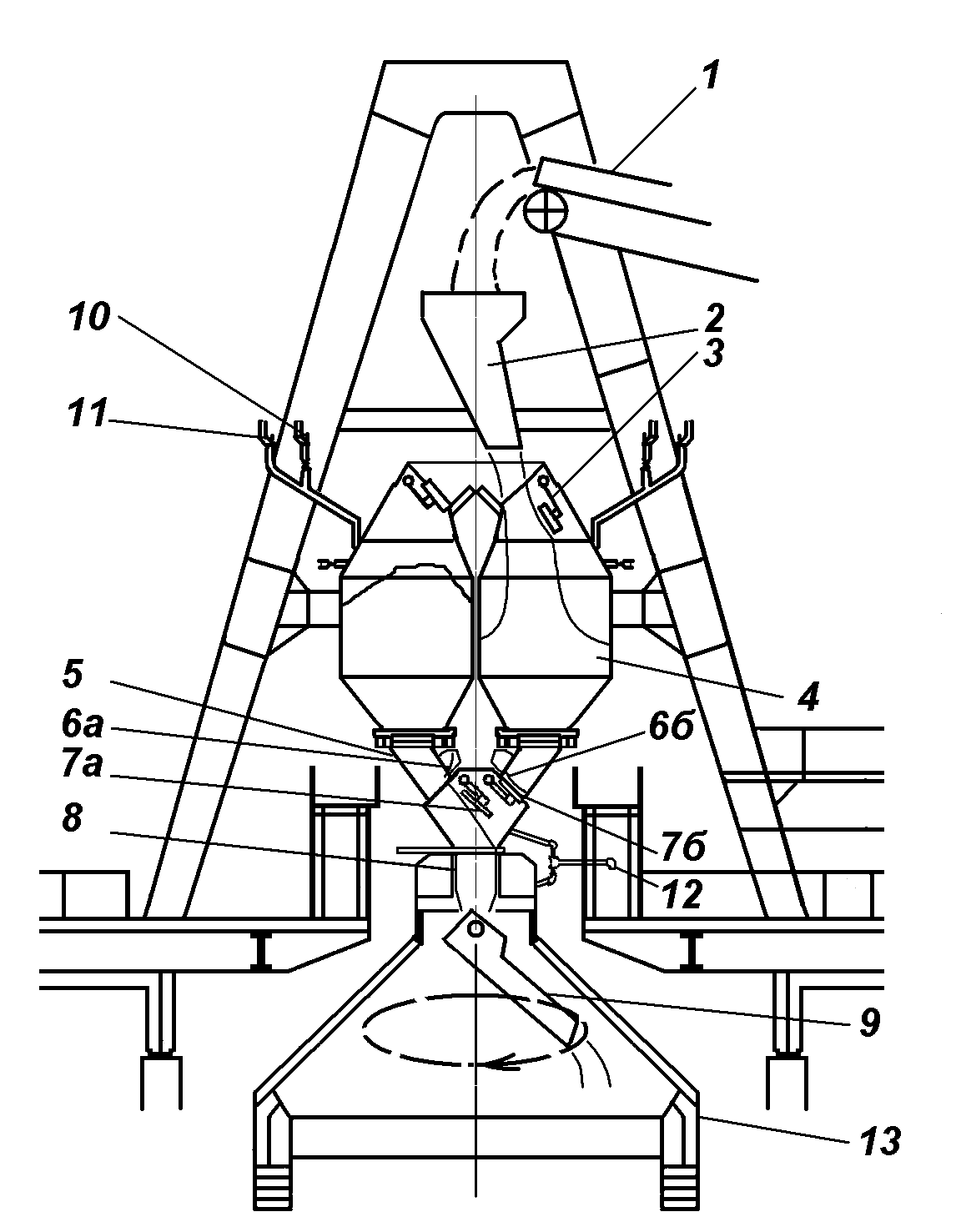 Bell less blast furnace top charging system. 1 — charging belt conveyor, 2 — receiving hopper, 3 — upper sealing valve, 4 — material bin, 5 — sealing tract, 6 — material flow regulating gate valve (a — open, b — closed), 7 — lower sealing valve (a — open, b — closed), 8 — spoute, 9 — roating distributing chute, 10 — equalizing valve, 11 — relief valve, 12 — clean gas drlivery, 13 — blast-furnace top or blast-furnace throat.